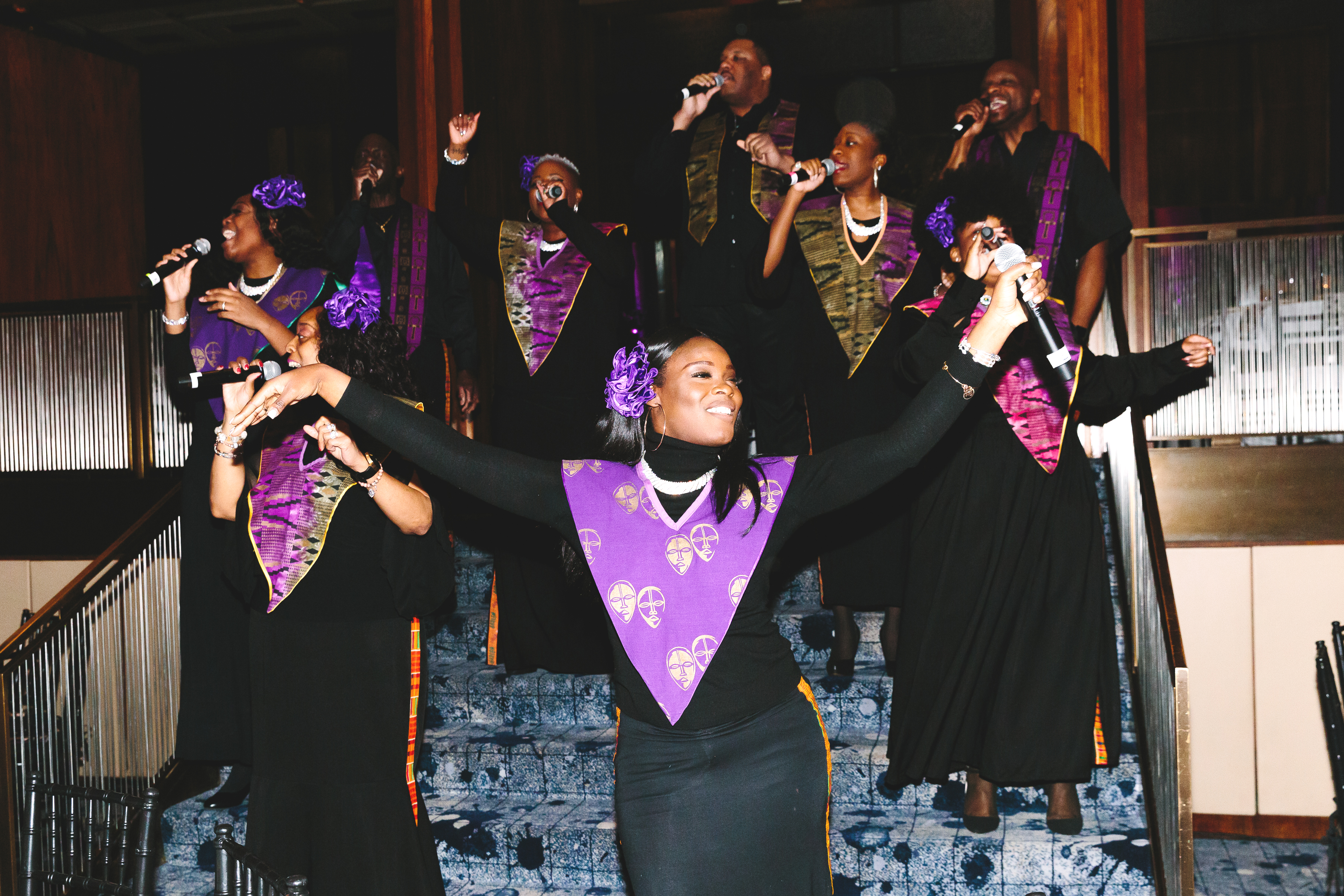 Harlem Gospel Choir on Stage at The Grille, NYC during the Art Production Gala